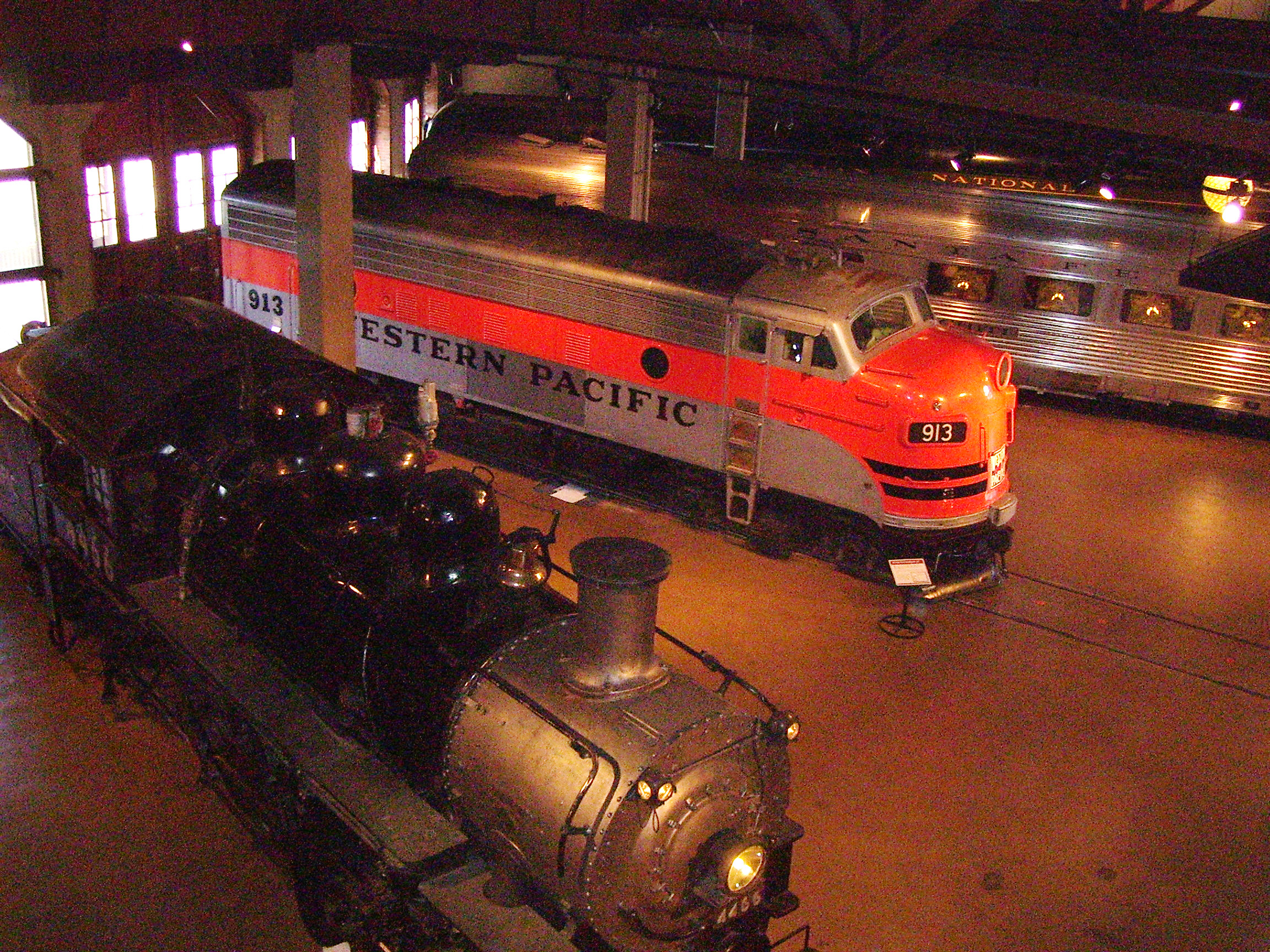 This is my 2008 photo of the California State Railroad Museum.